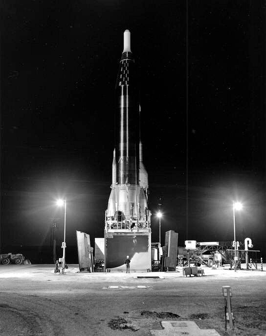 Convair SM-65F Atlas 94F 578 SMS Site 12 Corinth TX. Circa 1962